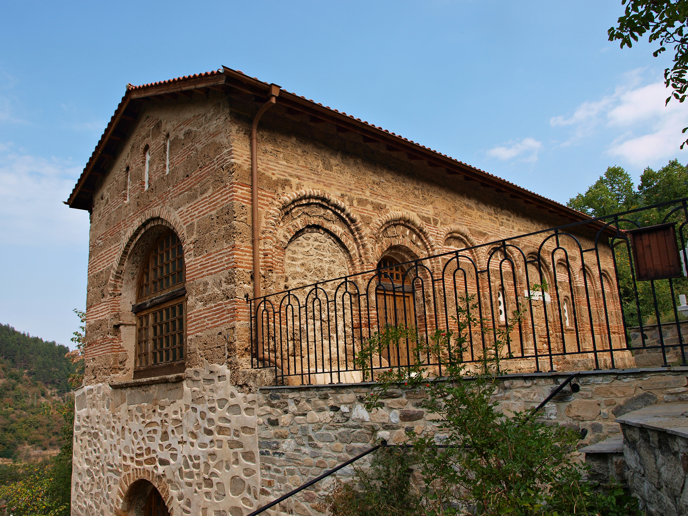 Ossuary of the Bachkovo Monastery, Bachkovo, Bulgaria